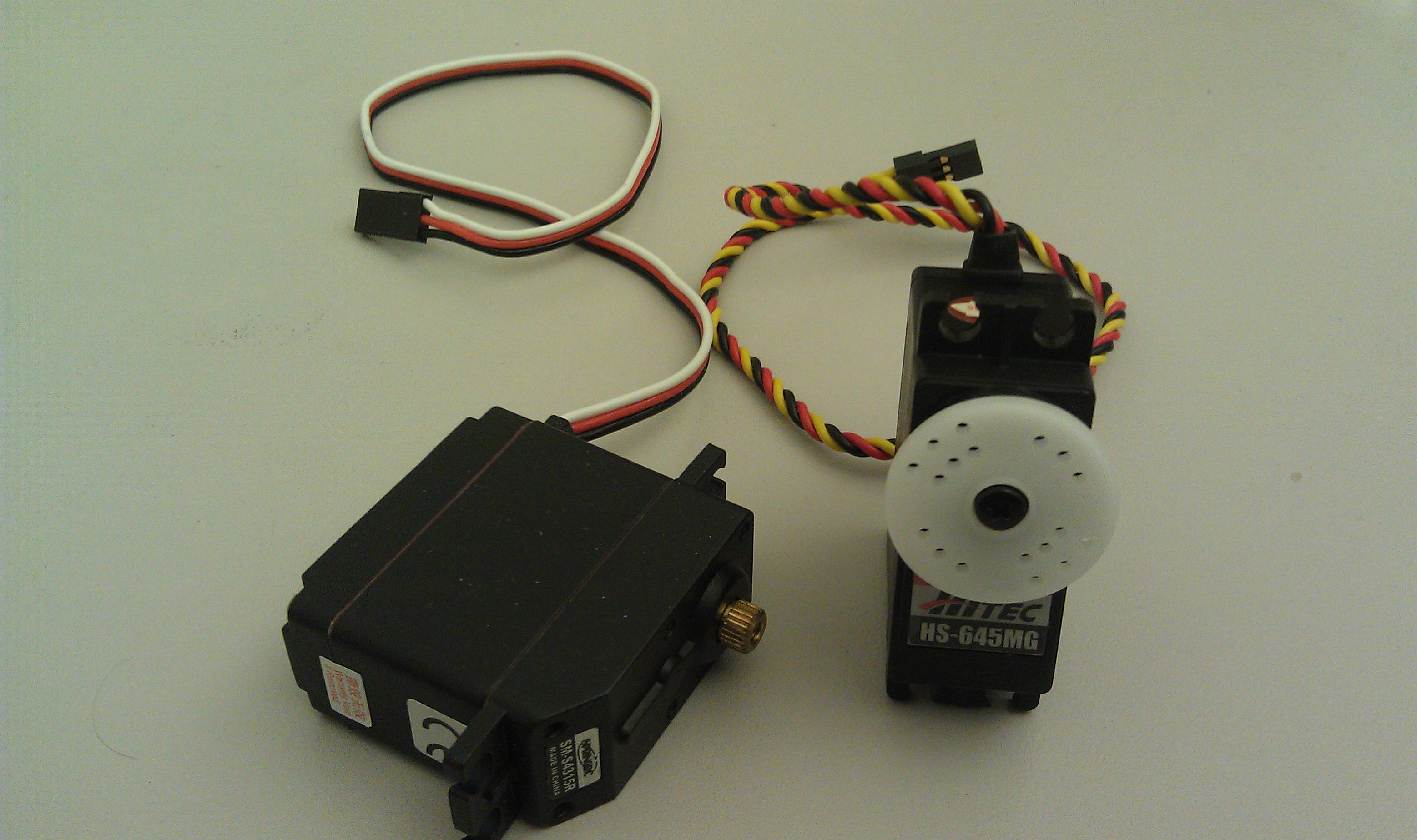 This image shows two hobby servo motors. One is a standard Hitec servo with a circular horn, the other is a continuous rotation servo with no horn attached, exposing the output shaft (photographed with mobile phone).